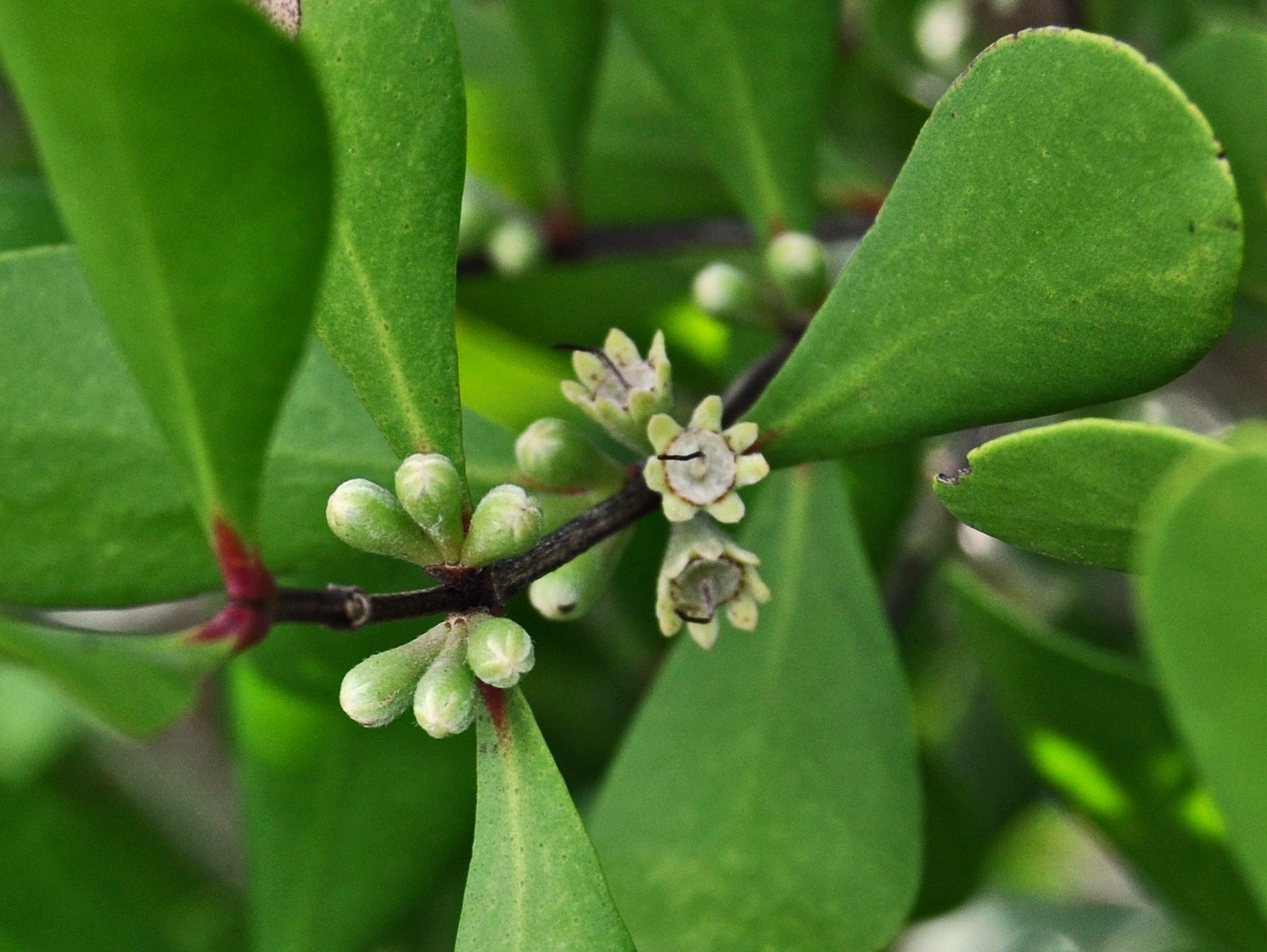 Osbornia octodonta, flowers & flower buds close up. From Sangatta, East Kalimantan, Indonesia